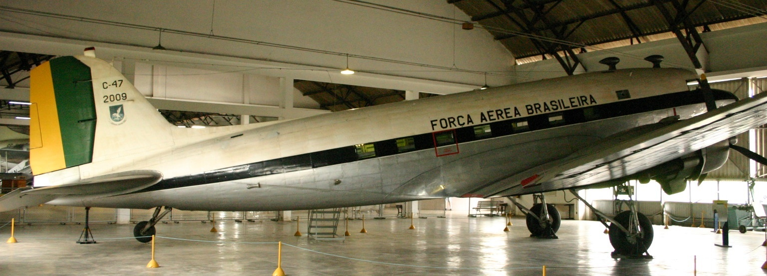 At Campo Dos Afonsos